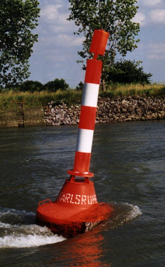 Fairway ton (mark) on the river Rhine, right side